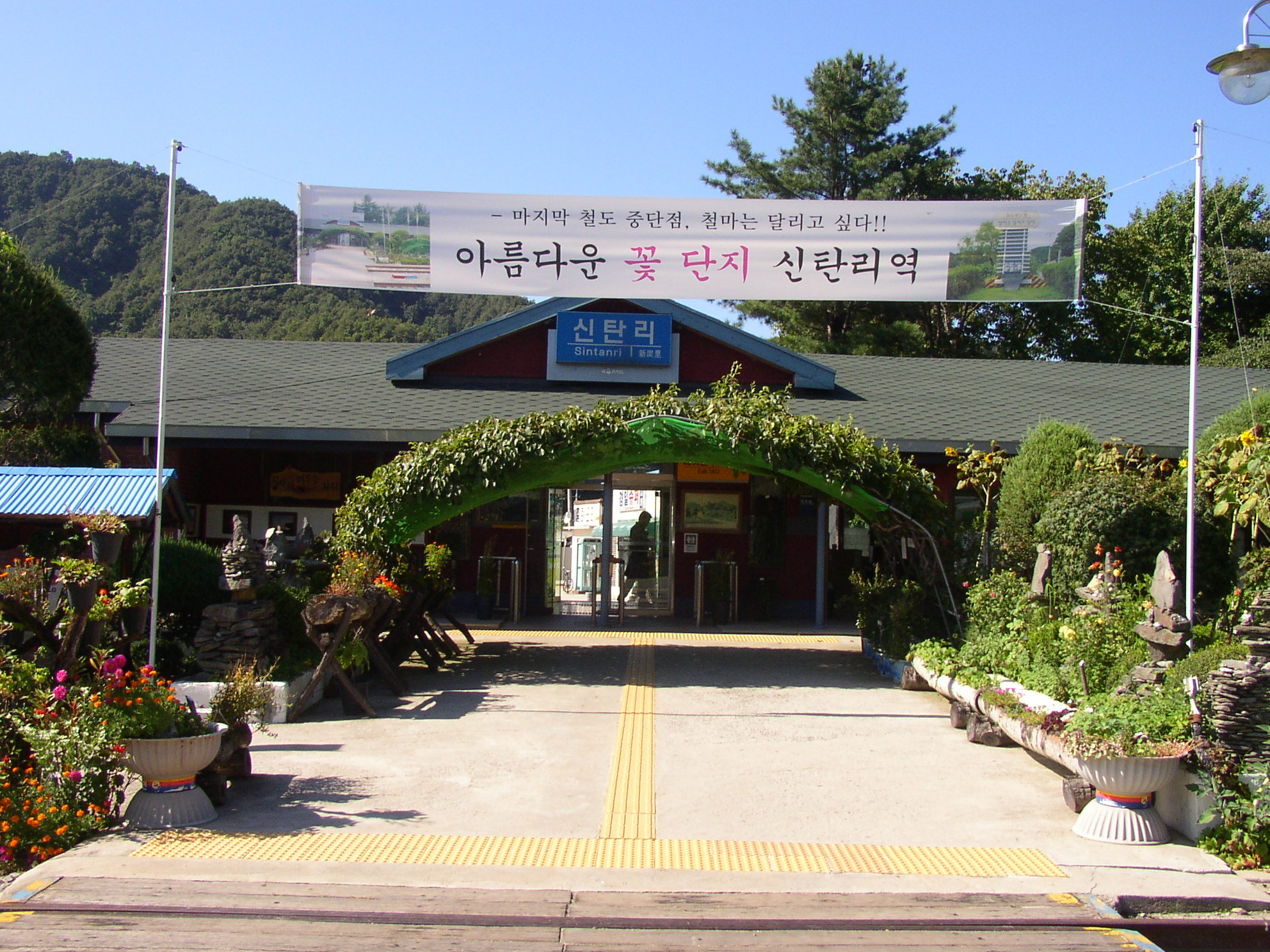 Sintan-ri Station (Gyeongwon Line, The Northernmost Station in South Korea)